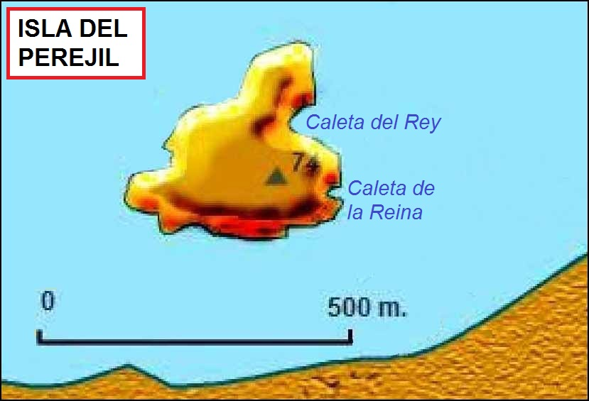 Map of the spanish Perejil Island